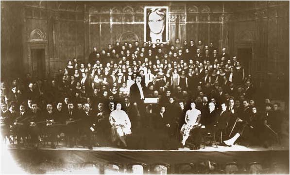 First performance of Beethoven's 9th Symphony in Tbilisi. Conductor - Ivane Paliashvili - 1927, 4 april